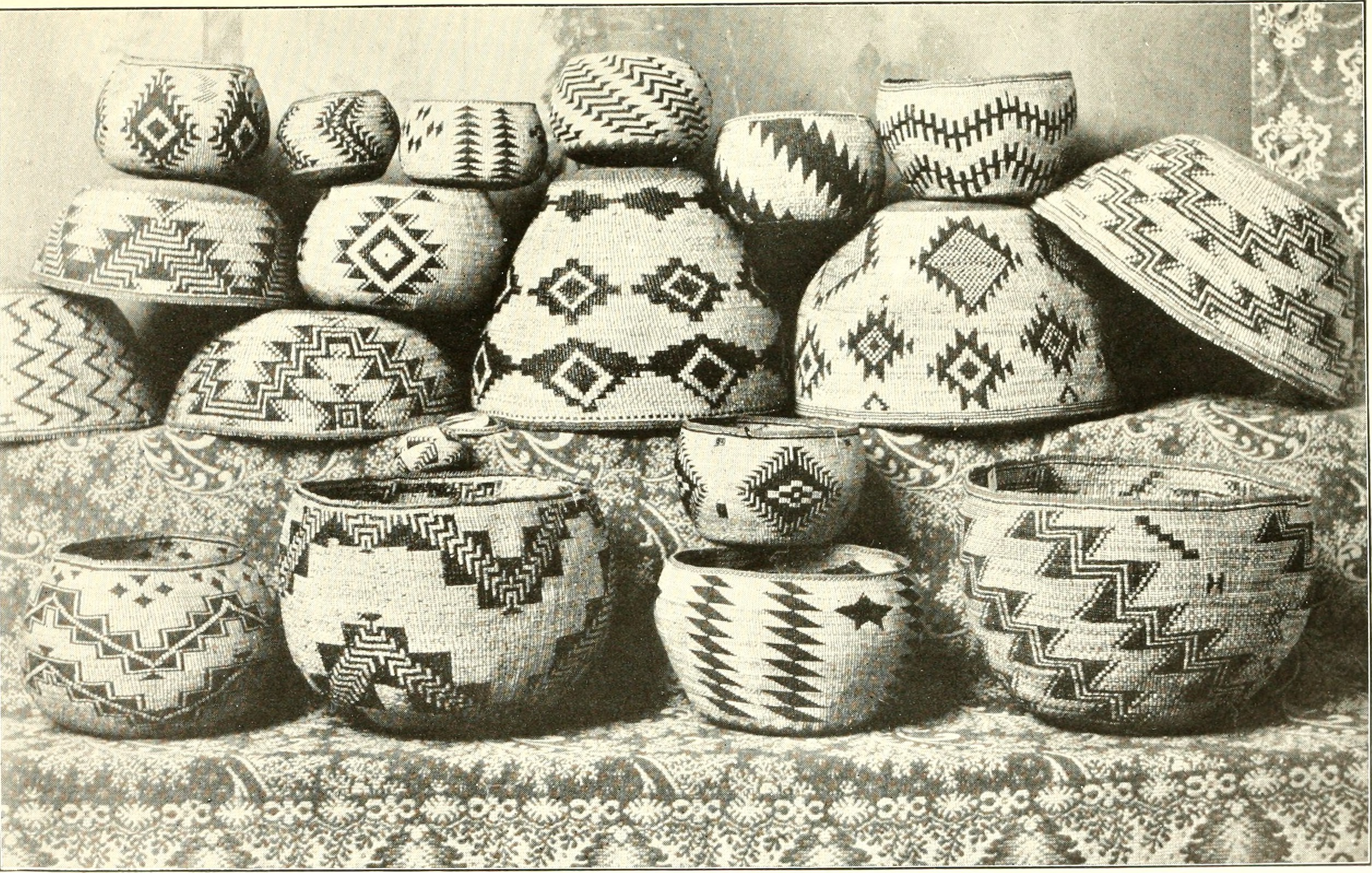 Title: Annual report of the Board of Regents of the Smithsonian Institution Year: 1846 (1840s) Authors: Smithsonian Institution. Board of Regents; United States National Museum. Report of the U. S. National Museum; Smithsonian Institution. Report of the Secretary Subjects: Smithsonian Institution; Smithsonian Institution. Archives; Discoveries in science Publisher: Washington : Smithsonian Institution Text Appearing Before Image: Report of U. S. National Museum, 1902.—Mason. Plate 178. Text Appearing After Image: '